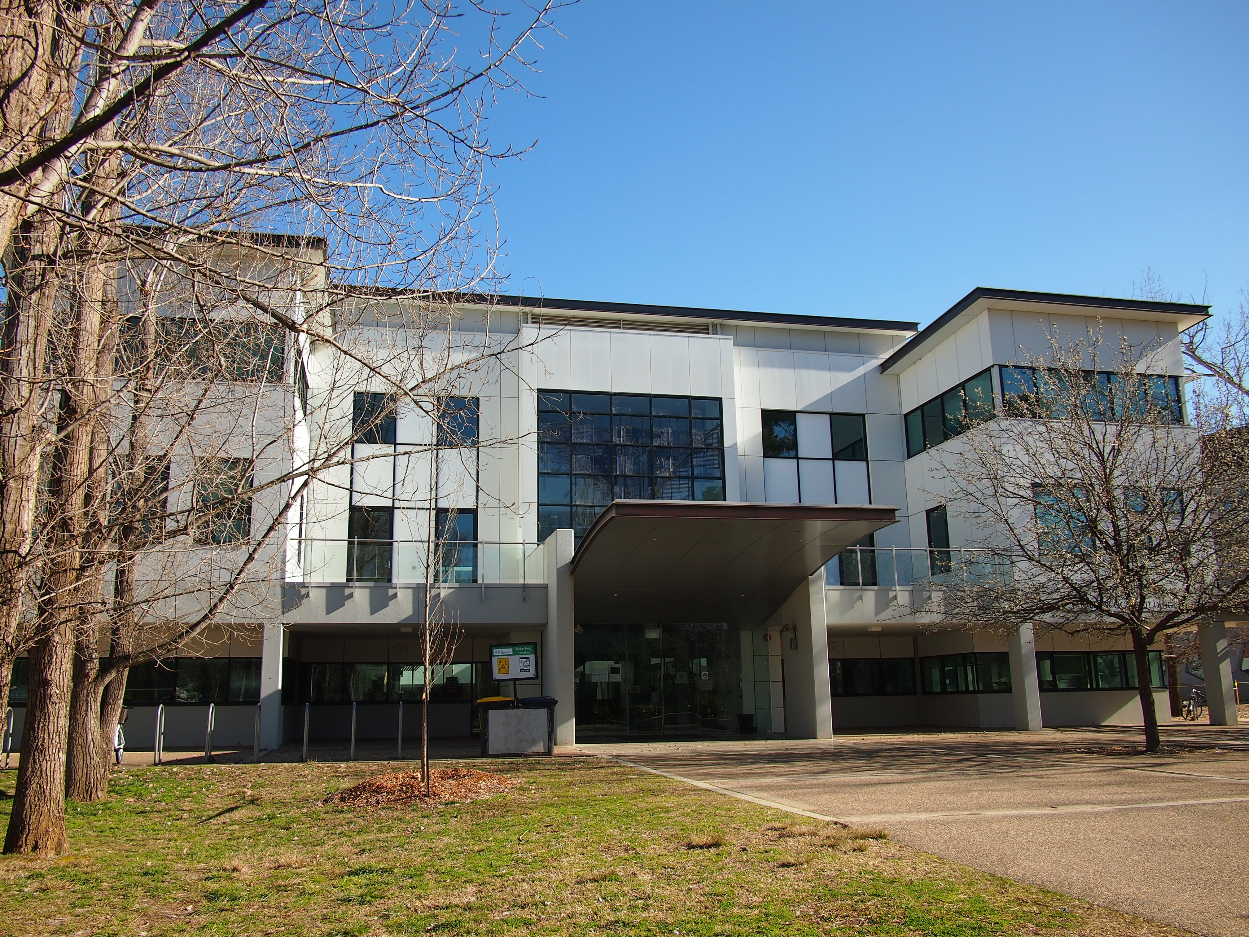 The East face and entrance of of the Hancock Library